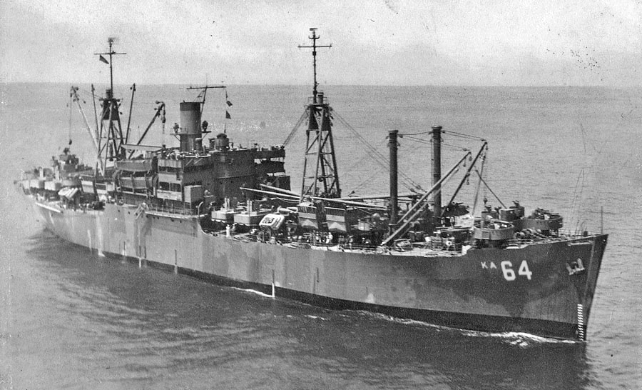 The U.S. Navy attack cargo ship USS Tolland (AKA-64) underway, circa in 1945. Note the lack of a pennant number.